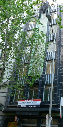 Alkire House. Queen Street, Melbourne